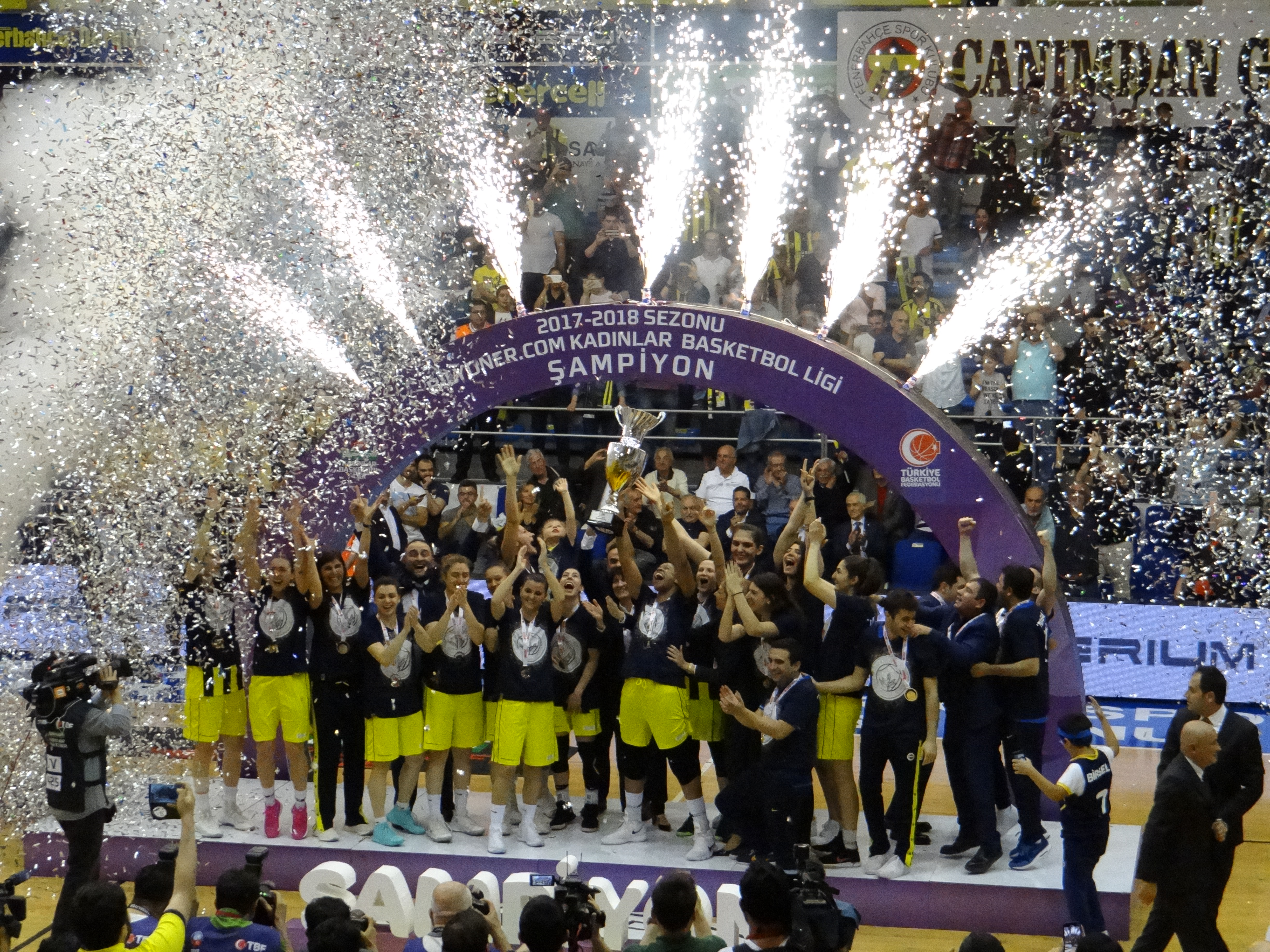 Fenerbahçe Women's Basketball vs Yakın Doğu Üniversitesi (women's basketball) TWBL 20180521